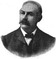 Hartwig Cassel (chess player)